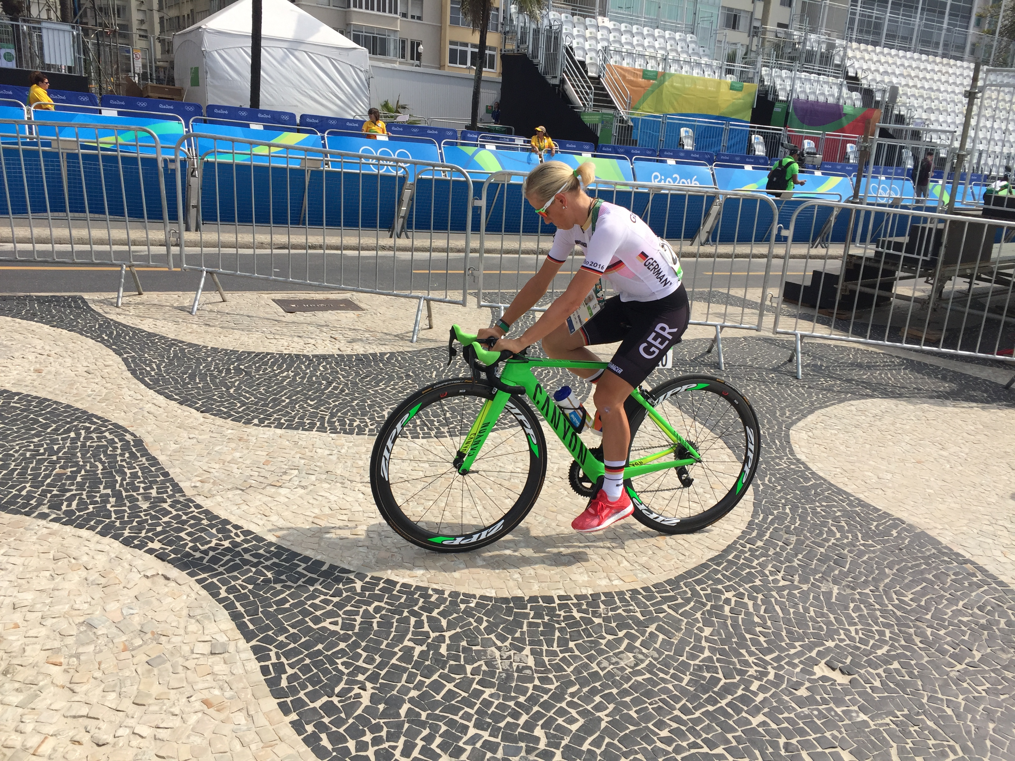 Rio 2016 - Women's road race